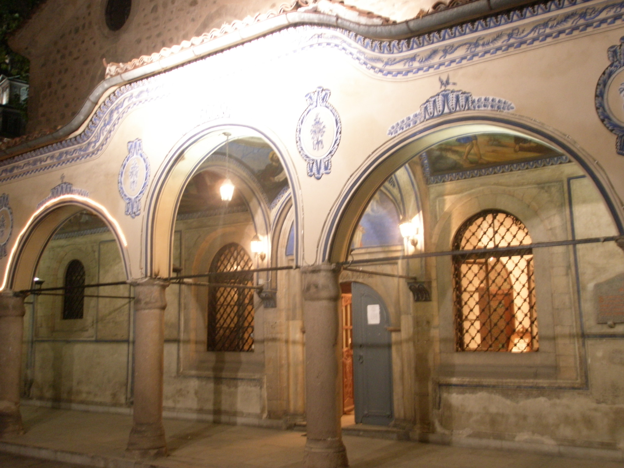 входът